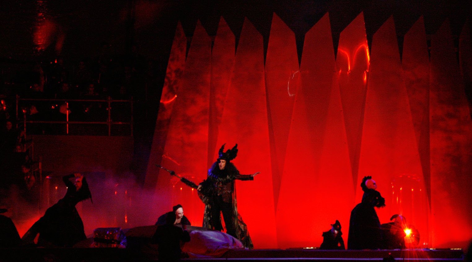 Tomasz Konieczny during the opening of the Life Ball 2010.